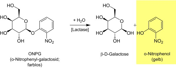 Reaksi ONPG dengan B-galaktosidase, menghasilkan galaktosa dan nitrofenol yang berwarna